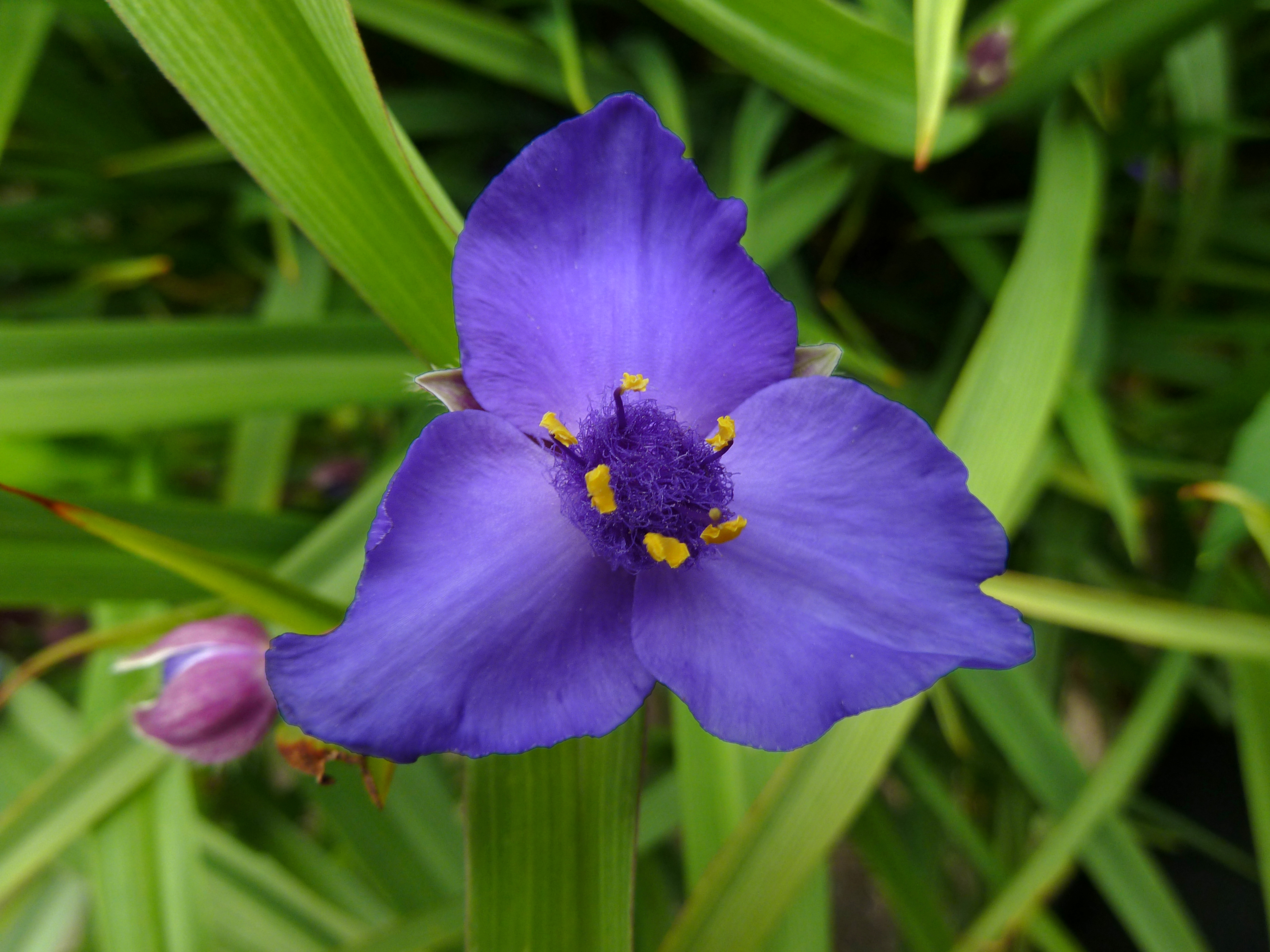 Spiderwort (Tradescantia virginiana), Roundhay Park